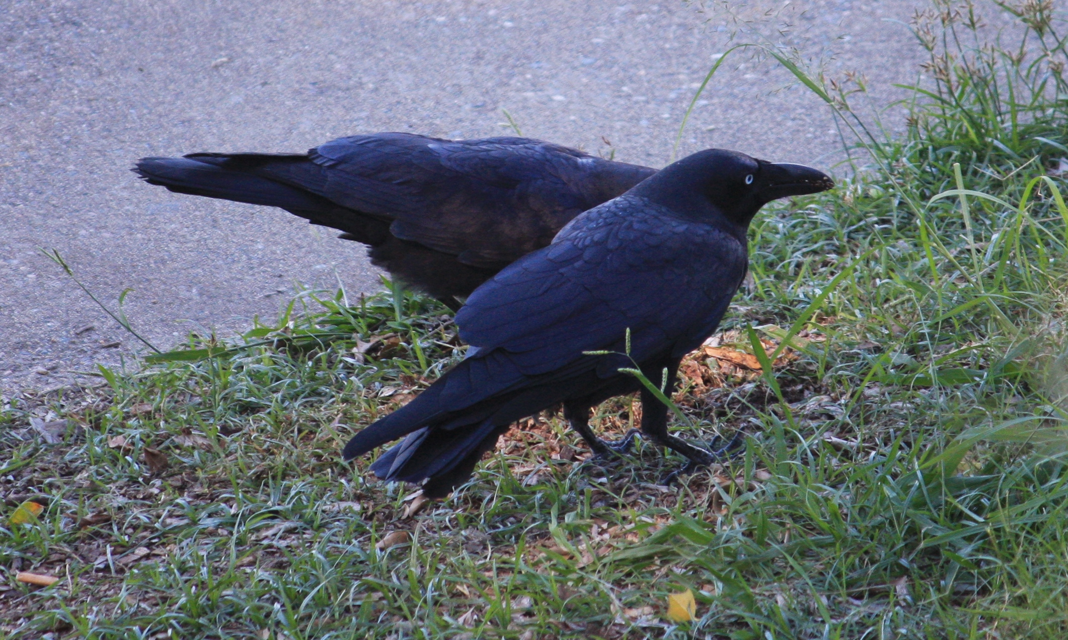 Torresian Crow Corvus orru, Brisbane, April 19 2014.